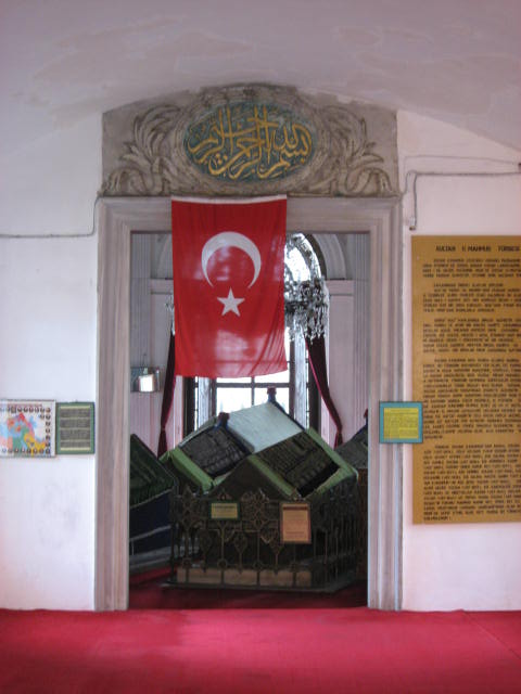 Interior view of the mausoleum (türbe) of Sultan Mahmud II (1785-1839), Sultan Abdülaziz (1830-1876) and Sultan Abdülhamid II (1842-1918), located at Divan Yolu street.